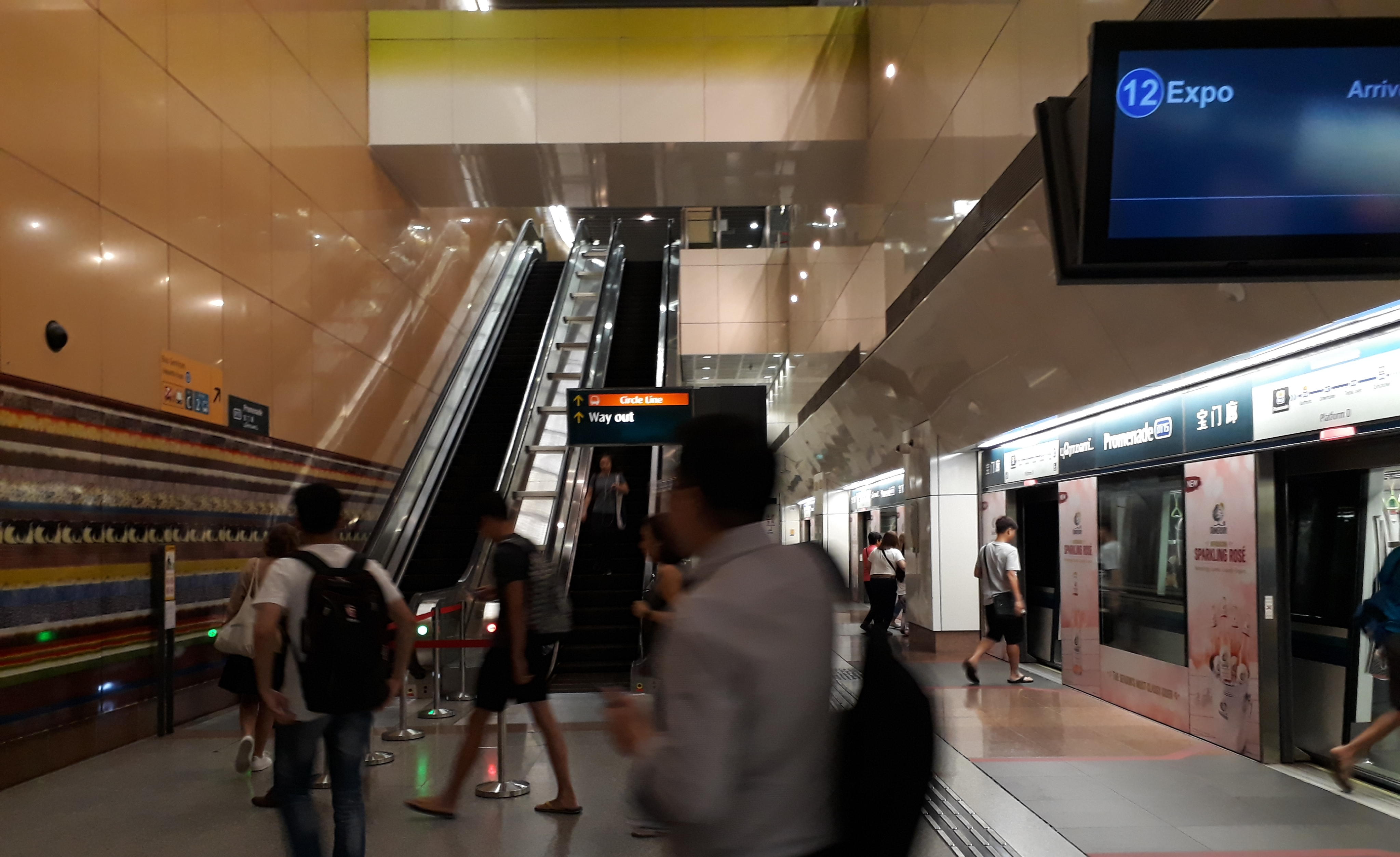 Platform D of Promenade MRT Station